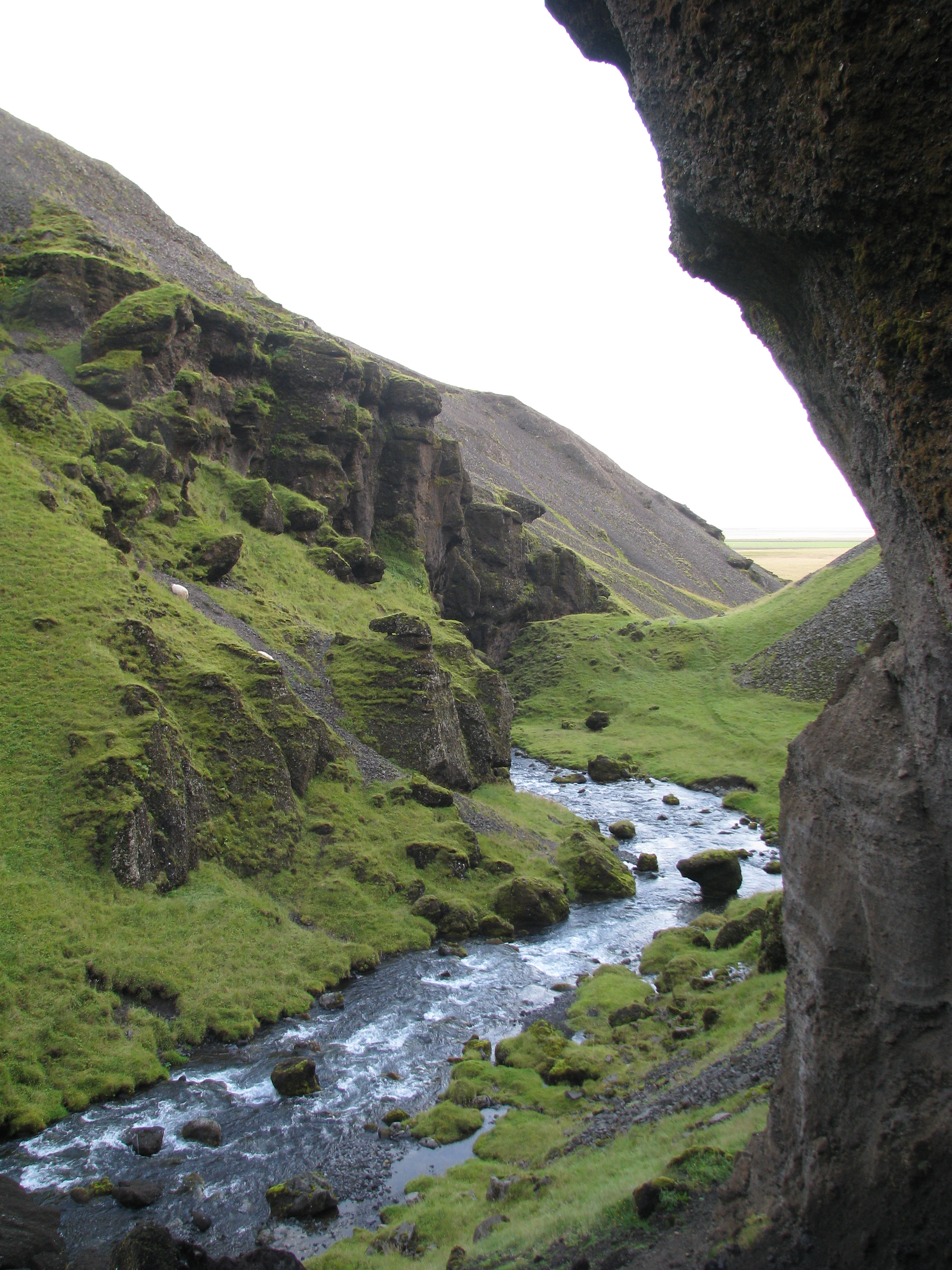 Kverná, river, Iceland